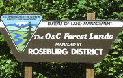 Sign indicating former land of the Oregon and California Railroad now belonging to the Bureau of Land Management near Roseburg, Oregon.